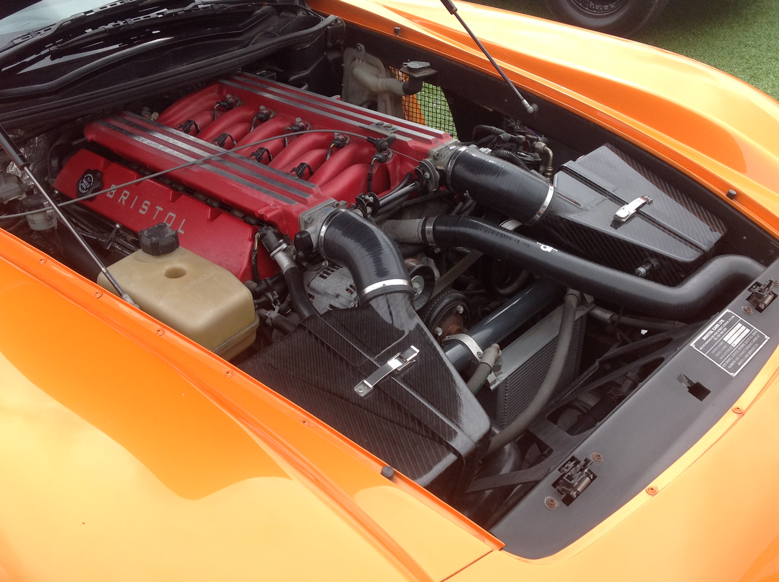 V10 Viper engine. Rare Breeds Show, Haynes Motor Museum, Sparkford, Somerset